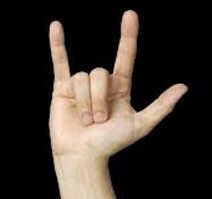 I Love You in Sign Language